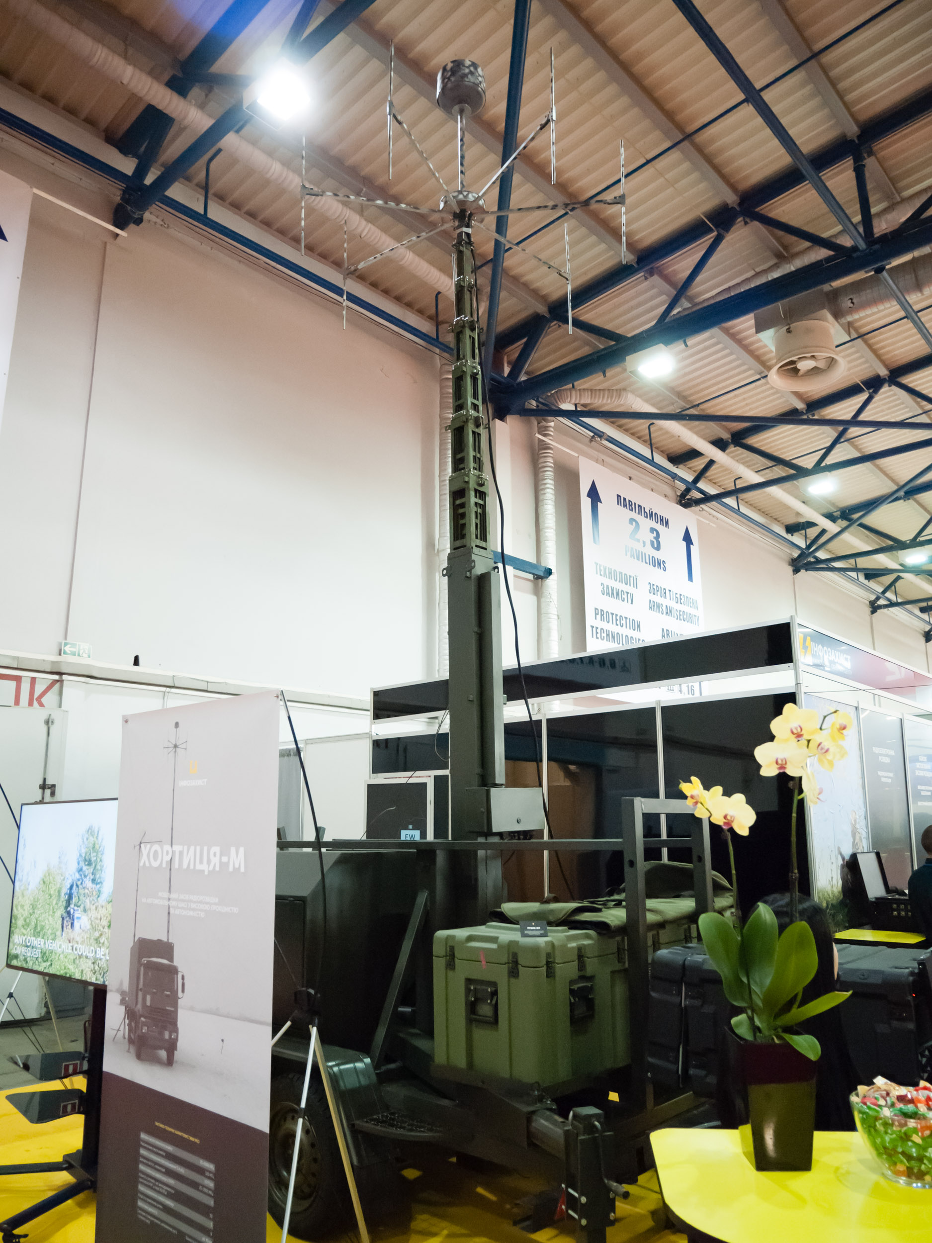 Khortytsia-M electronic warfare complex by Infozahyst (Ukraine), 'Zbroya ta Bezpeka' military fair, Kyiv, Ukraine, 2018